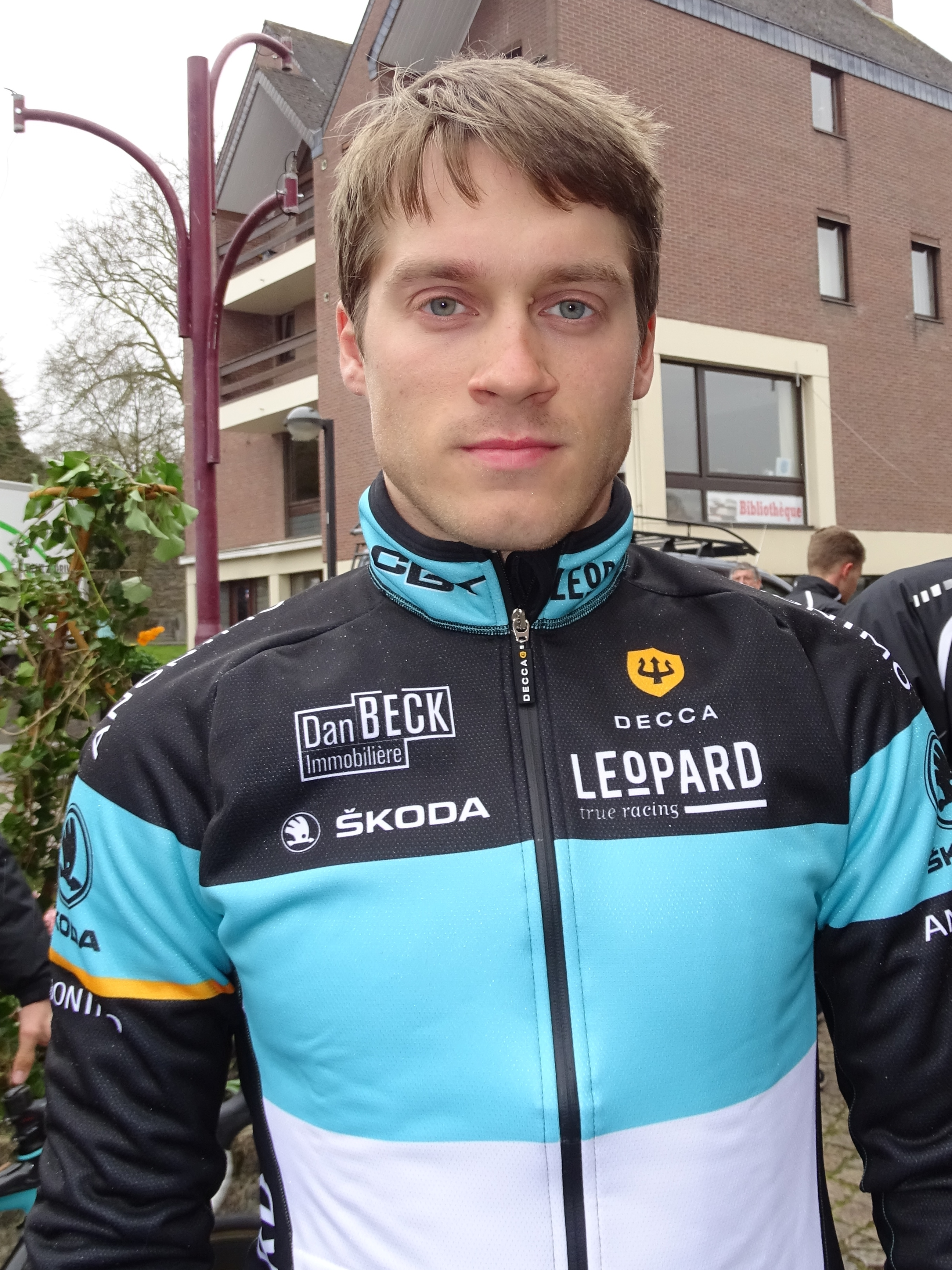 Triptyque des Monts et Châteaux 2015 Depicted person: Viktor Manakov Depicted team: Leopard Development